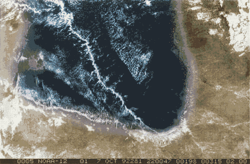 Morningglory cloud in the Gulf of Carpentaria, Northen Australia